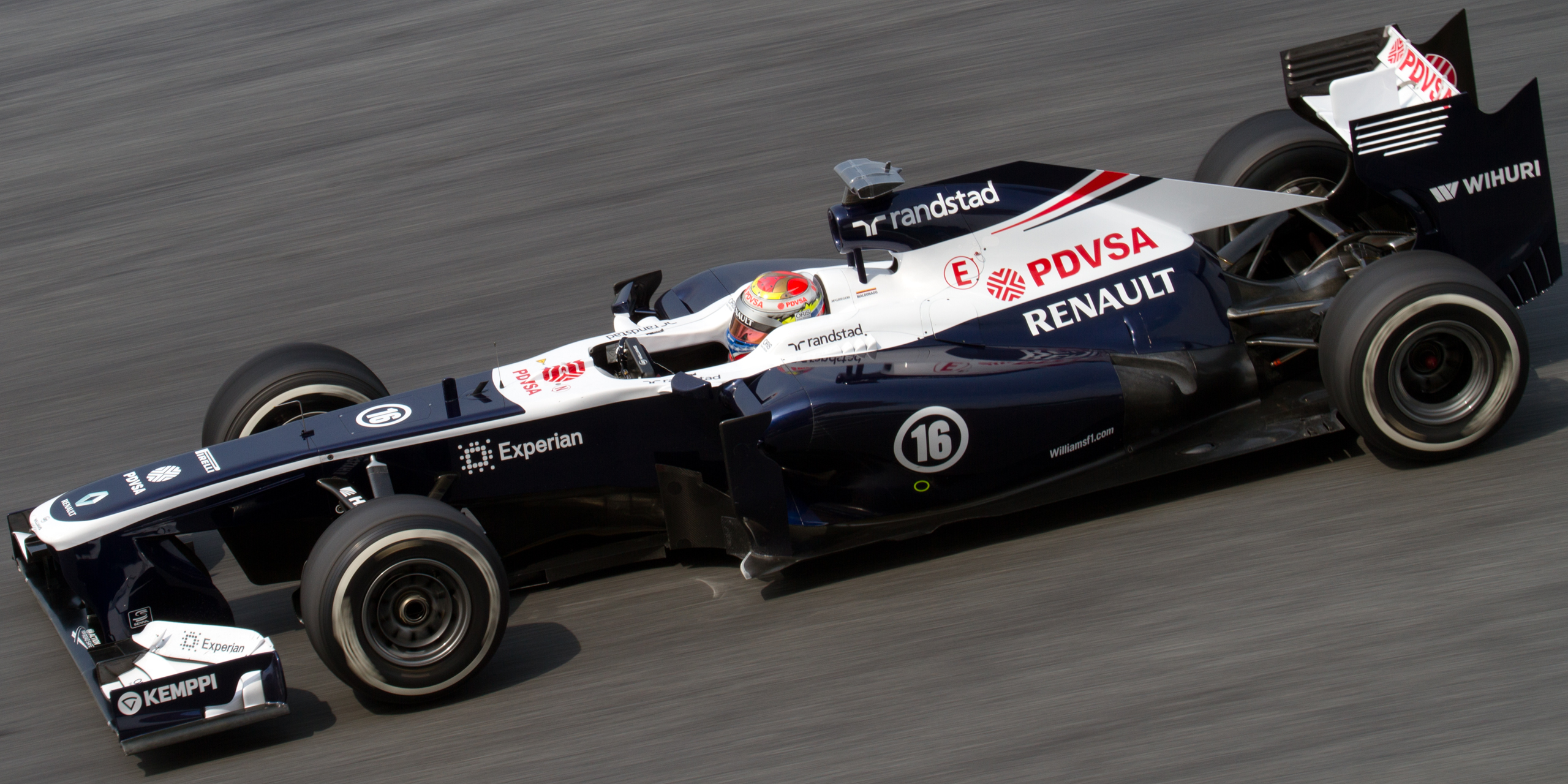 Formula One 2013 Rd.2 Malaysian GP: Pastor Maldonado (Williams) during the second practice session on Friday.